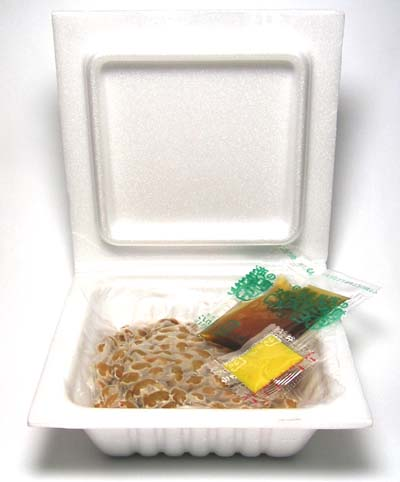 Taken from image:natto.jpg. Uploaded by user:Gleam. -- Toytoy 13:32, Mar 15, 2005 (UTC)